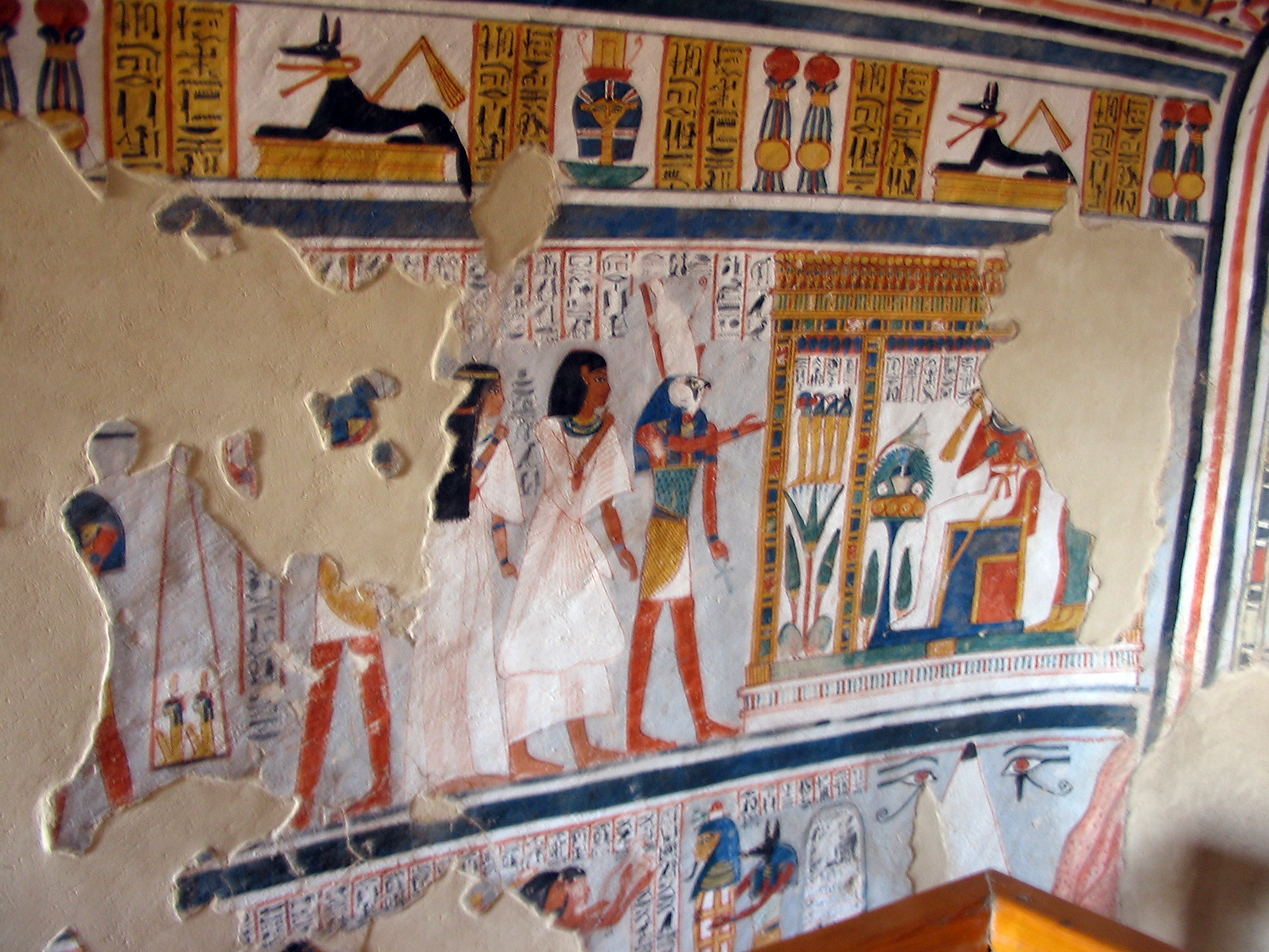 Theban Tomb TT255 at Dra Abu el-Naga belongs to the 18th dynasty official Roy who served as a royal scribe during Horemheb’s reign. It features vividly painted scenes of Roy and and his wife, Nebtawy, in the presence of various Egyptian gods in the afterlife.